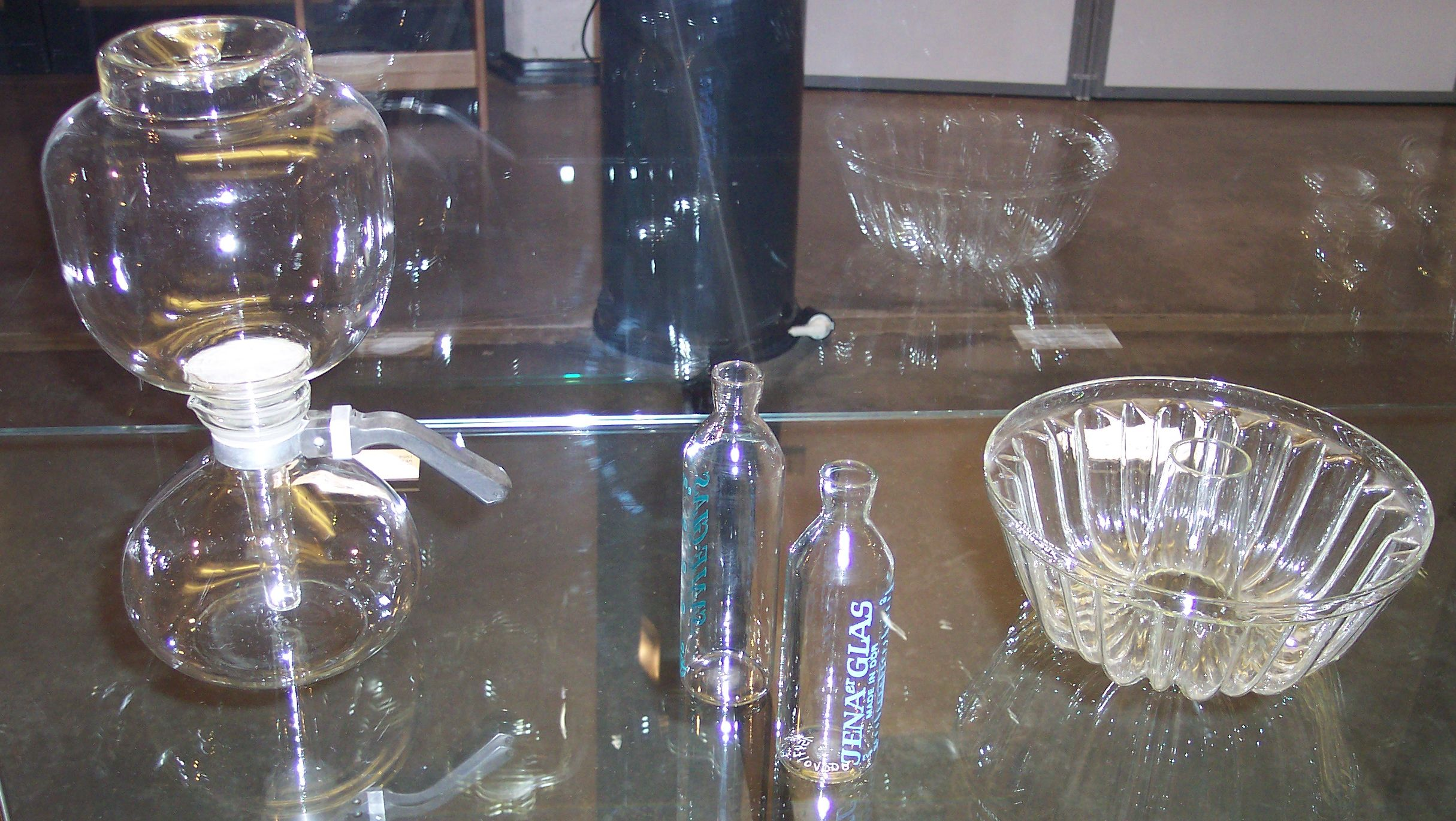 Products from Jenaer Glas (Schott AG)